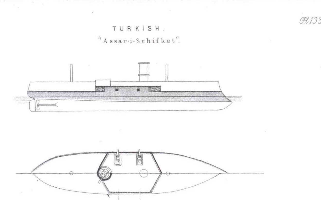 Ottoman ironclad Asar-i Shevket, built in France and launched in 1868. Sister ship was Necm-i Shevket, also launched in 1868.